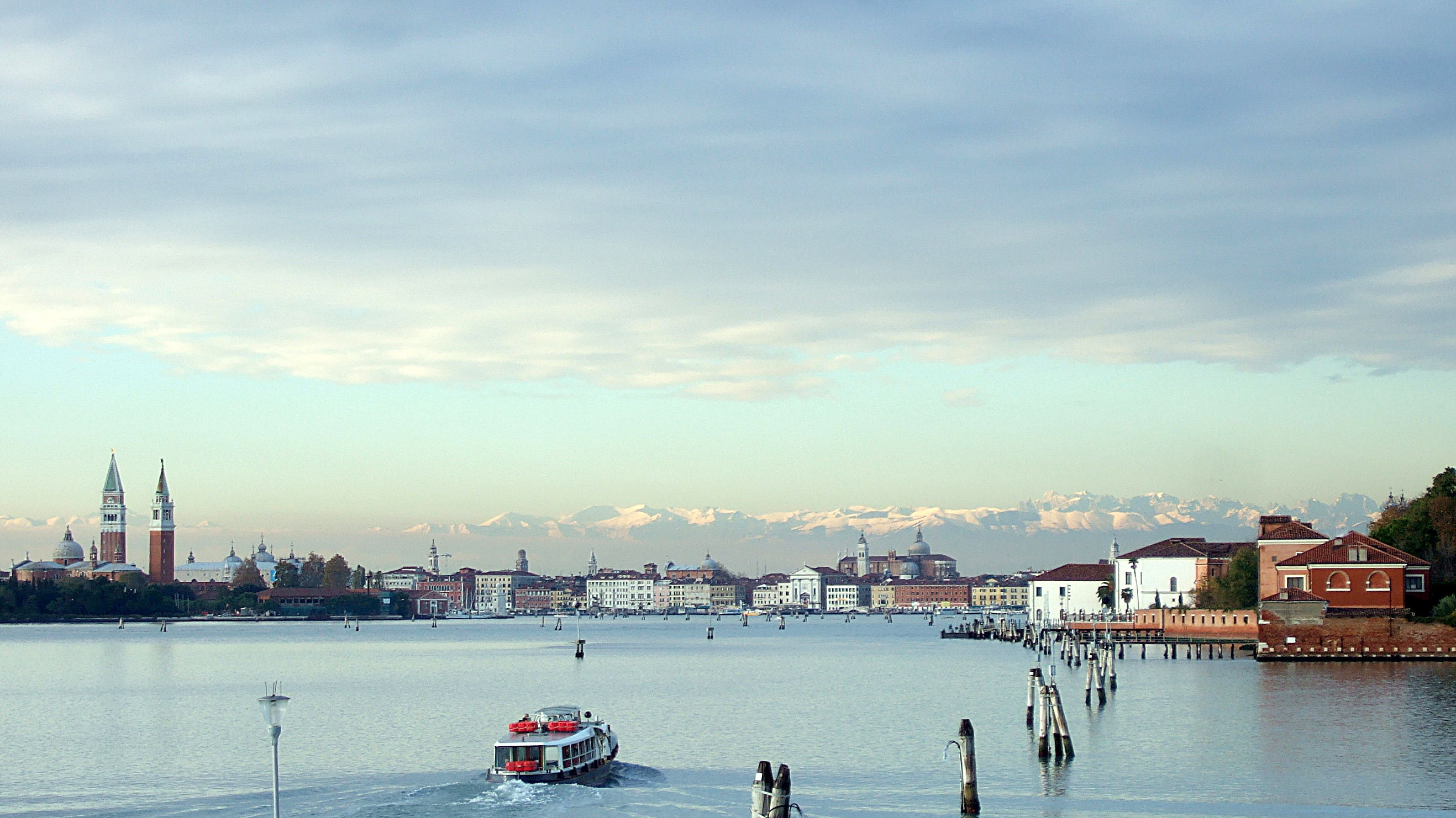 North-west-view from San Lazzaro degli Armeni (Saint Lazarus Island)